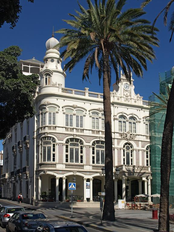 Las Palmas de Gran Canaria ,Gabinete_Literario, photo 2009